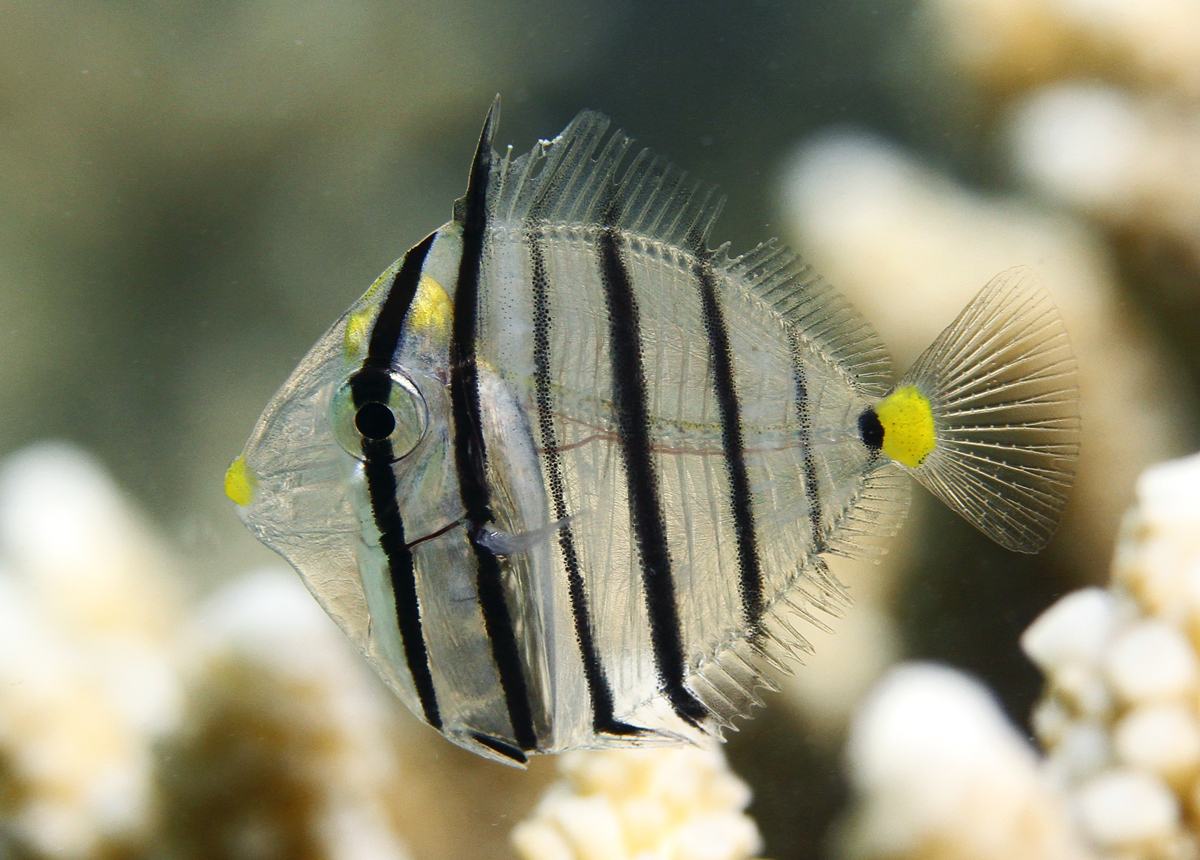 Post-larvae of a ringed tang (Zebrasoma desjardinii, around 3 cm, Réunion island).